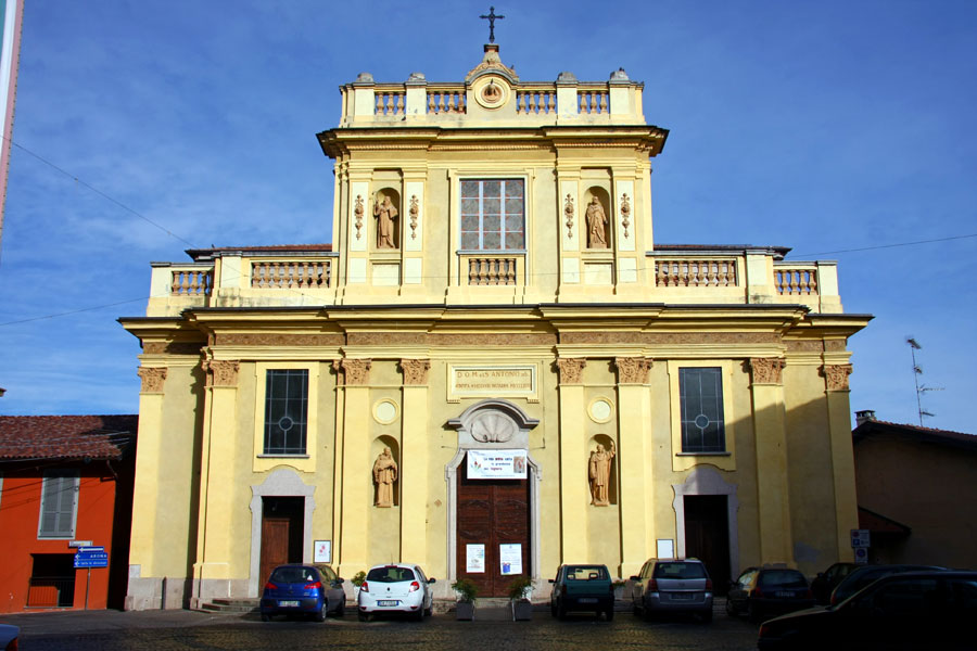 Parish church, Castelletto Sopra Ticino, Novara, Italy